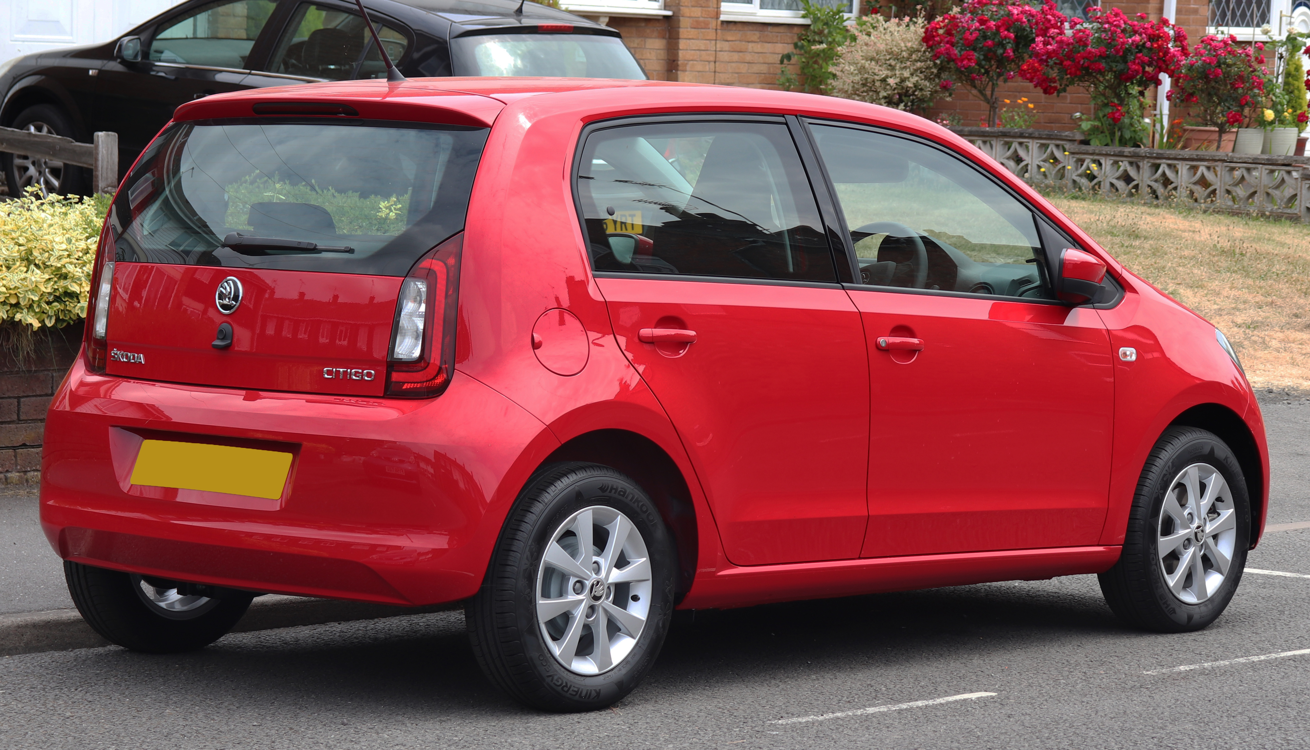 2018 Skoda Citigo SE MPi 1.0 Rear Taken in Warwick